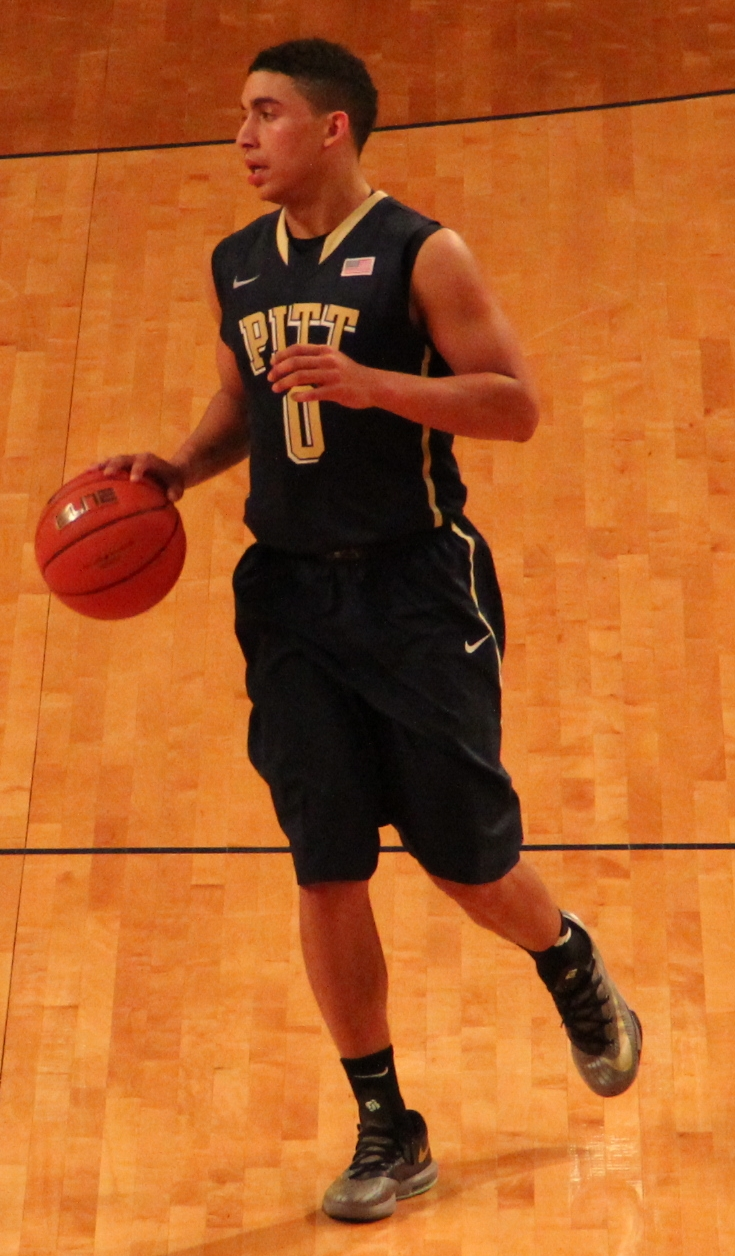 Pittsburgh Panthers men's basketball point guard James Robinson at Georgia Tech on January 14, 2014.